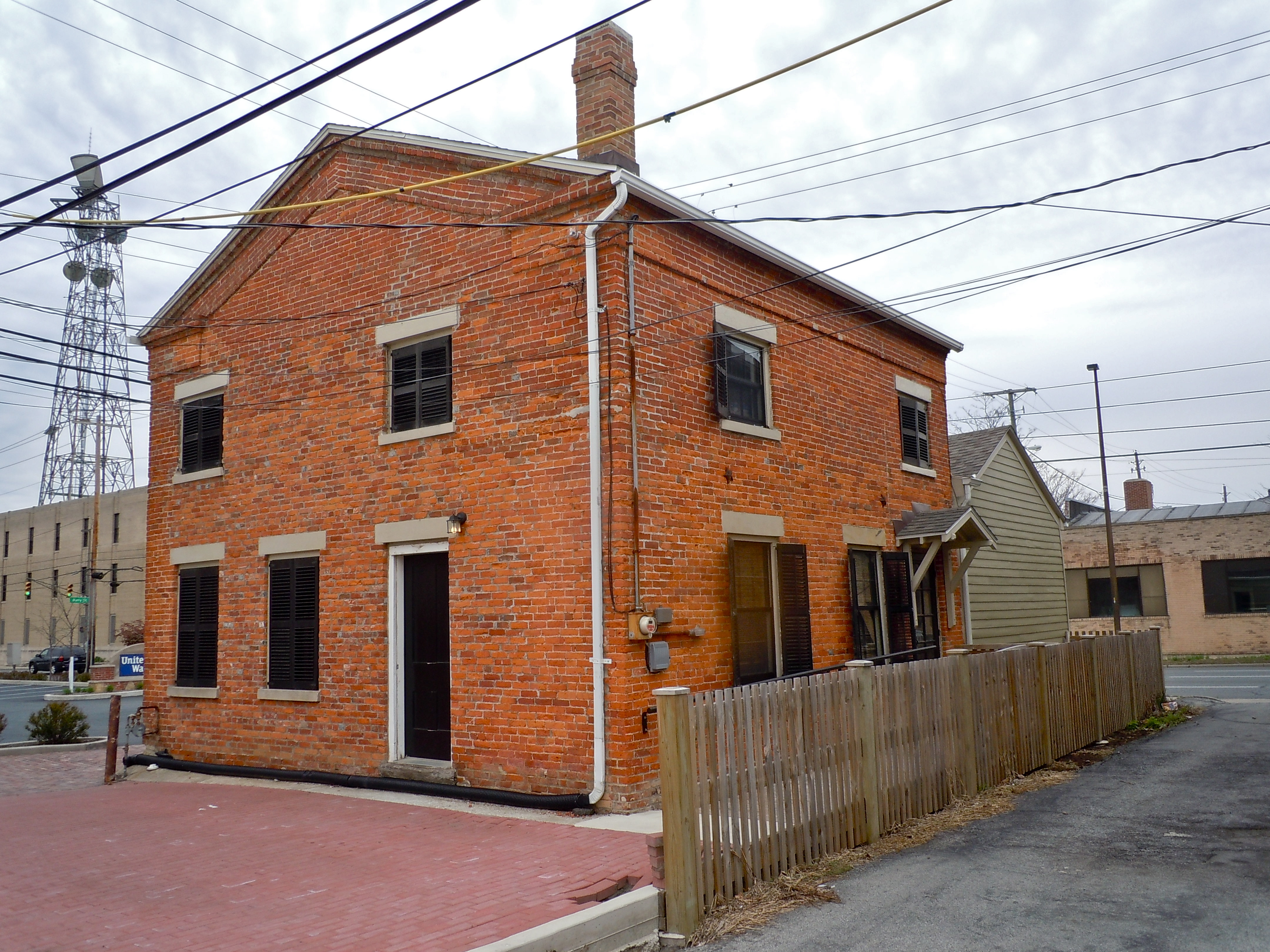 Alexander Taylor Rankin House on the NRHP since December 6, 2004. At 818 S. Lafayette St., Fort Wayne, Allen County, Indiana. This is the back of the current building which has been added on to. The building in front appears to be completely nondescript so this part is easily missed. Undergoing restoration.